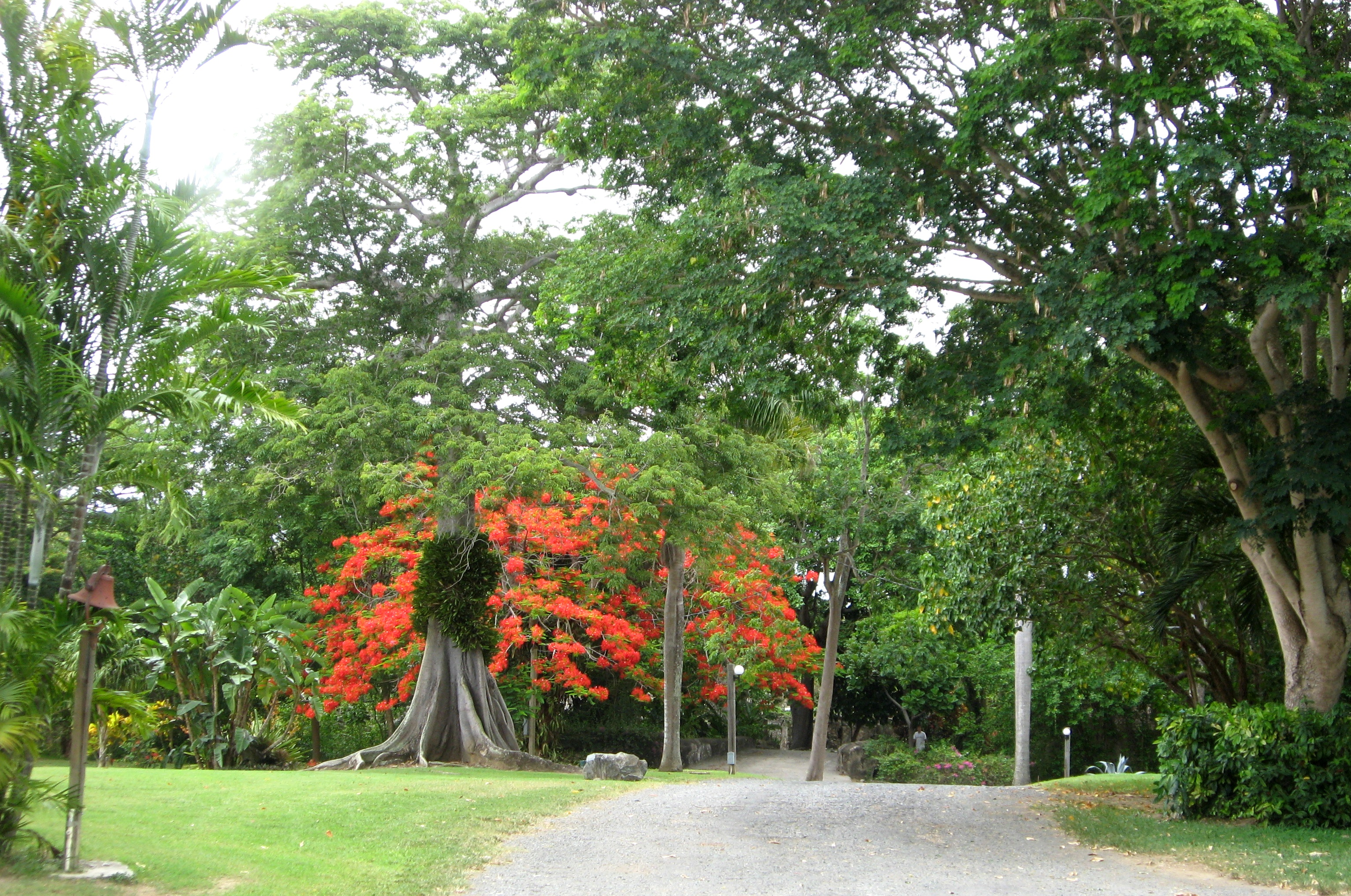 Gardens and rainforest canopy in St. George Village Botanical Gardens — on St. Croix island, United States Virgin Islands.